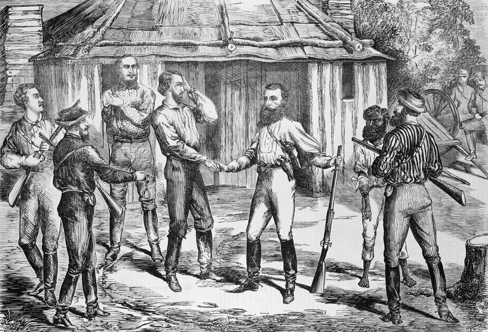 Police apprehension of bushrangers Thomas and John Clarke.